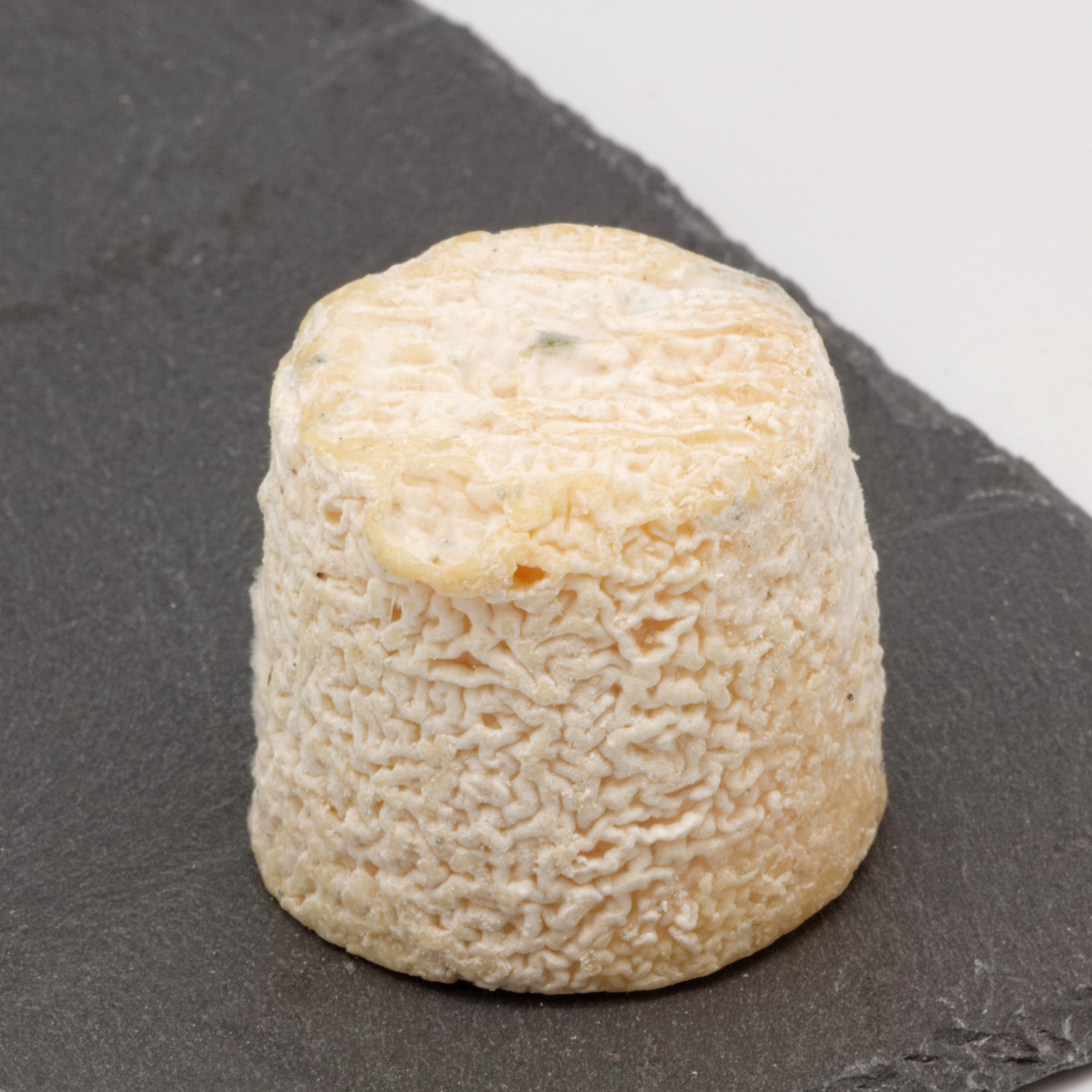 Chabichou du Poitou